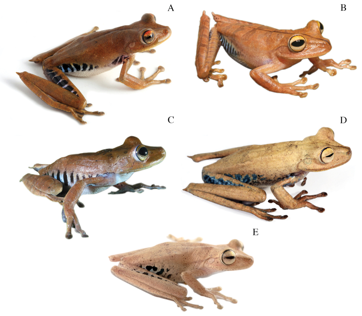 Dorsolateral views of adult females of A Hypsiboas fasciatus, QCAZ 48611, SVL = 51.79 mm B Hypsiboas almendarizae, QCAZ 32638, SVL = 51.26 mm C Hypsiboas calcaratus, QCAZ 24282, SVL = 51.26 mm D Hypsiboas maculateralis, QCAZ 43825, SVL = 55.31 mm E Hypsiboas alfaroi, QCAZ 43252, SVL = 45.37 mm.